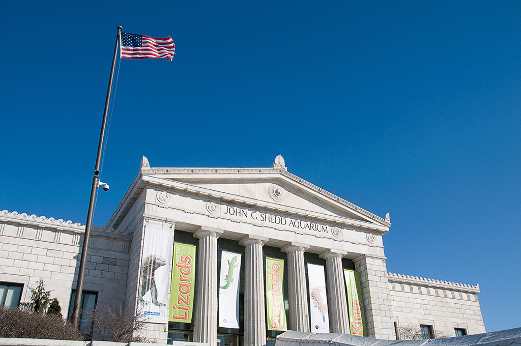 John G. Shedd Aquarium, Chicago